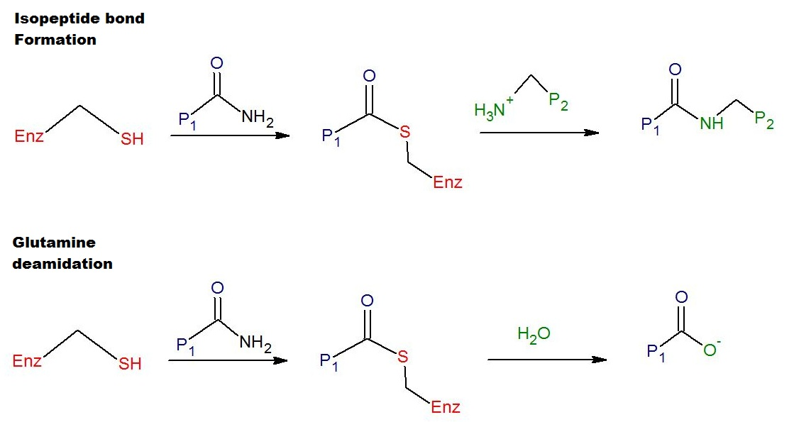 Chemical reaction mechanism for two reactions catalized by tissue transglutaminase.